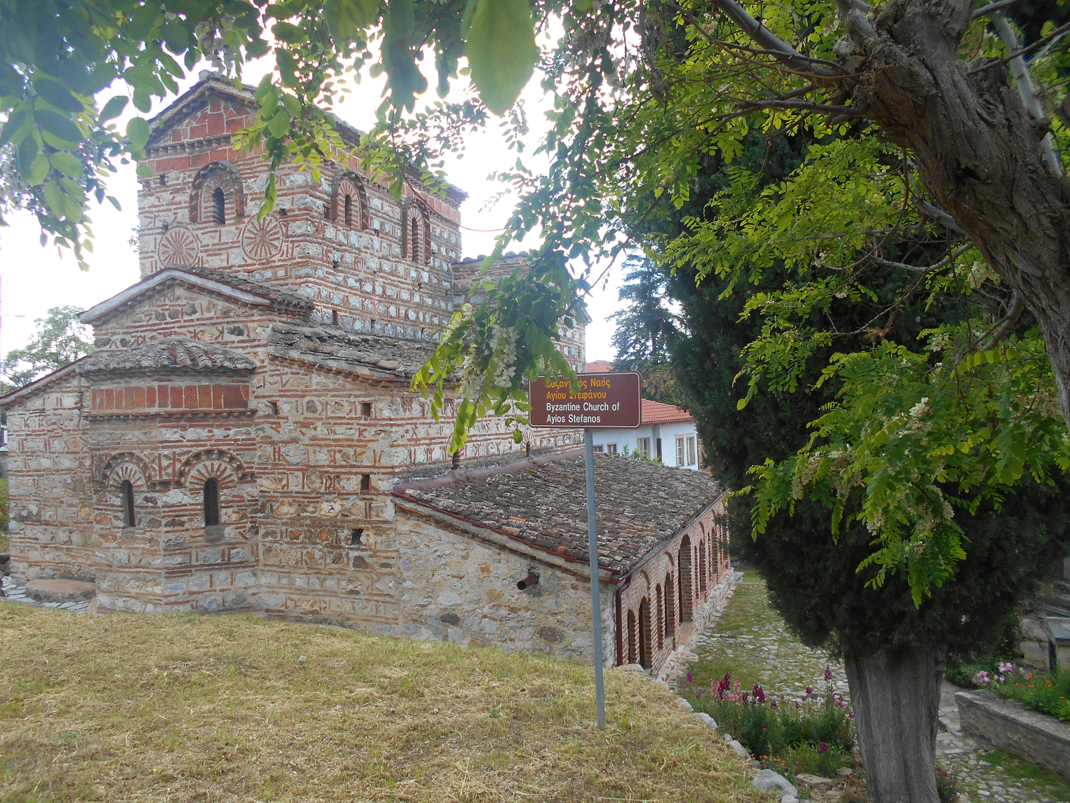 This is a photography of Natura 2000 protected area with ID Kastoria